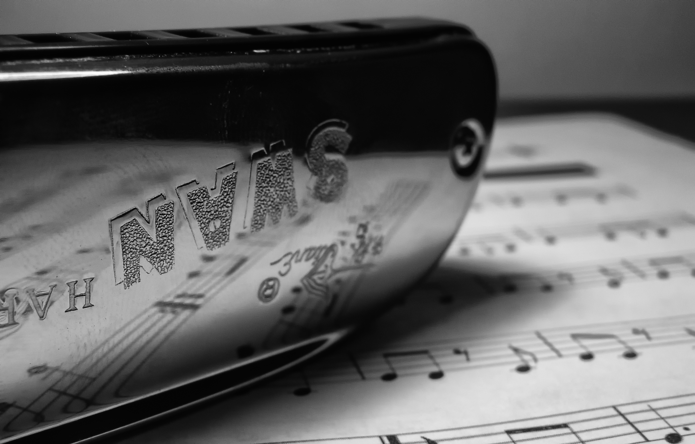 Diatonic ten-hole harmonica